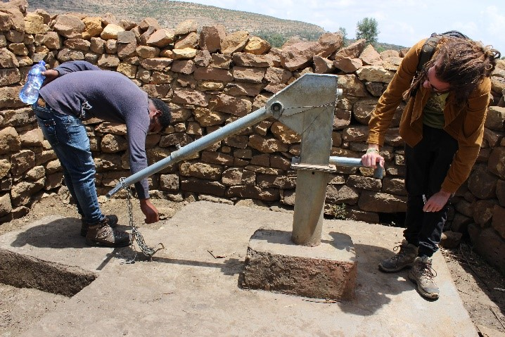 Amanit community water pump